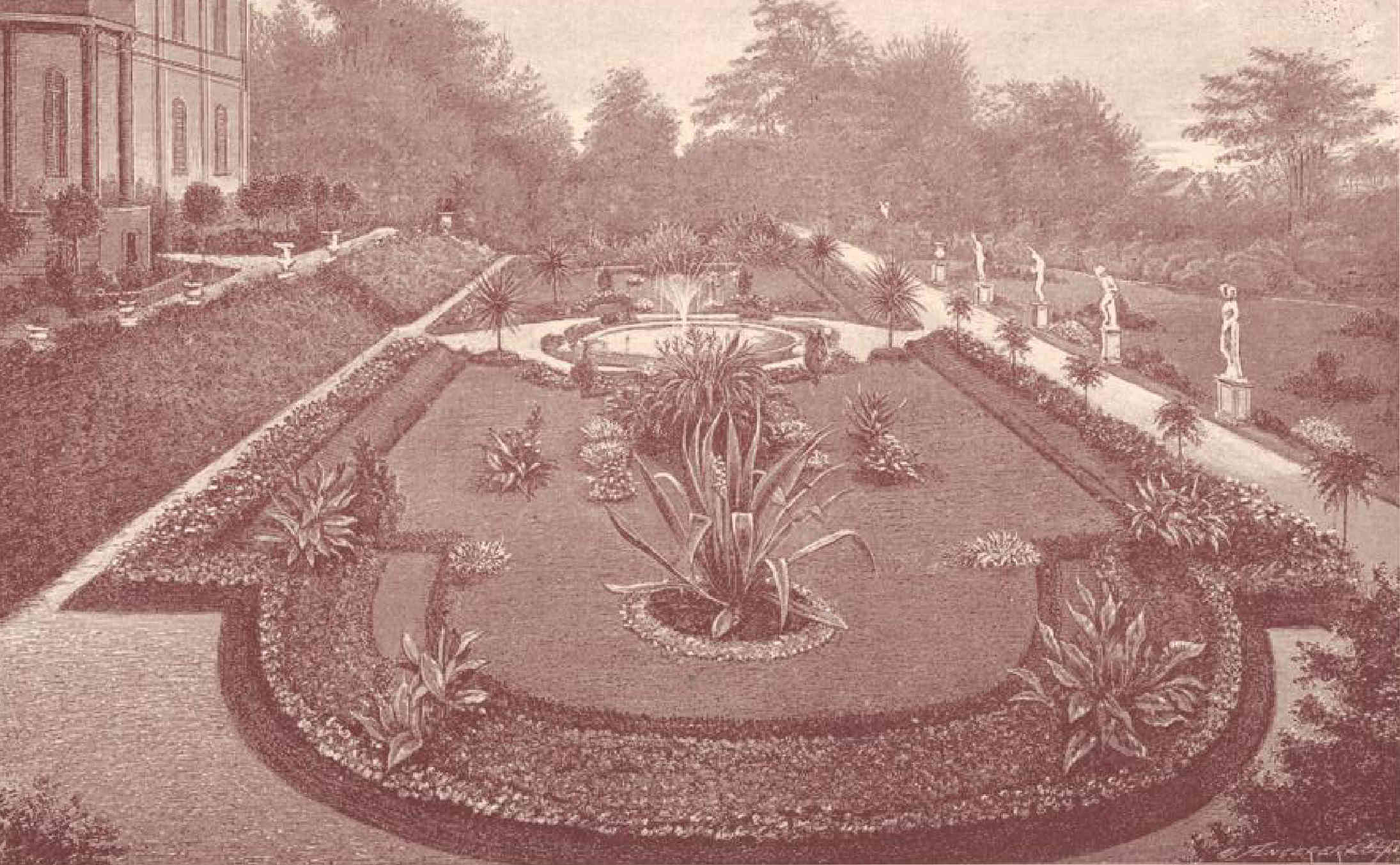 Gartenanlage der Villa Monrepos